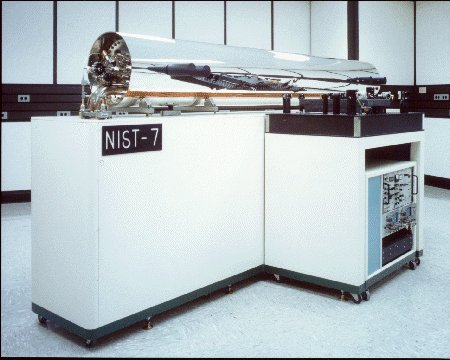 Atomic Clock NIST-7 (1993)